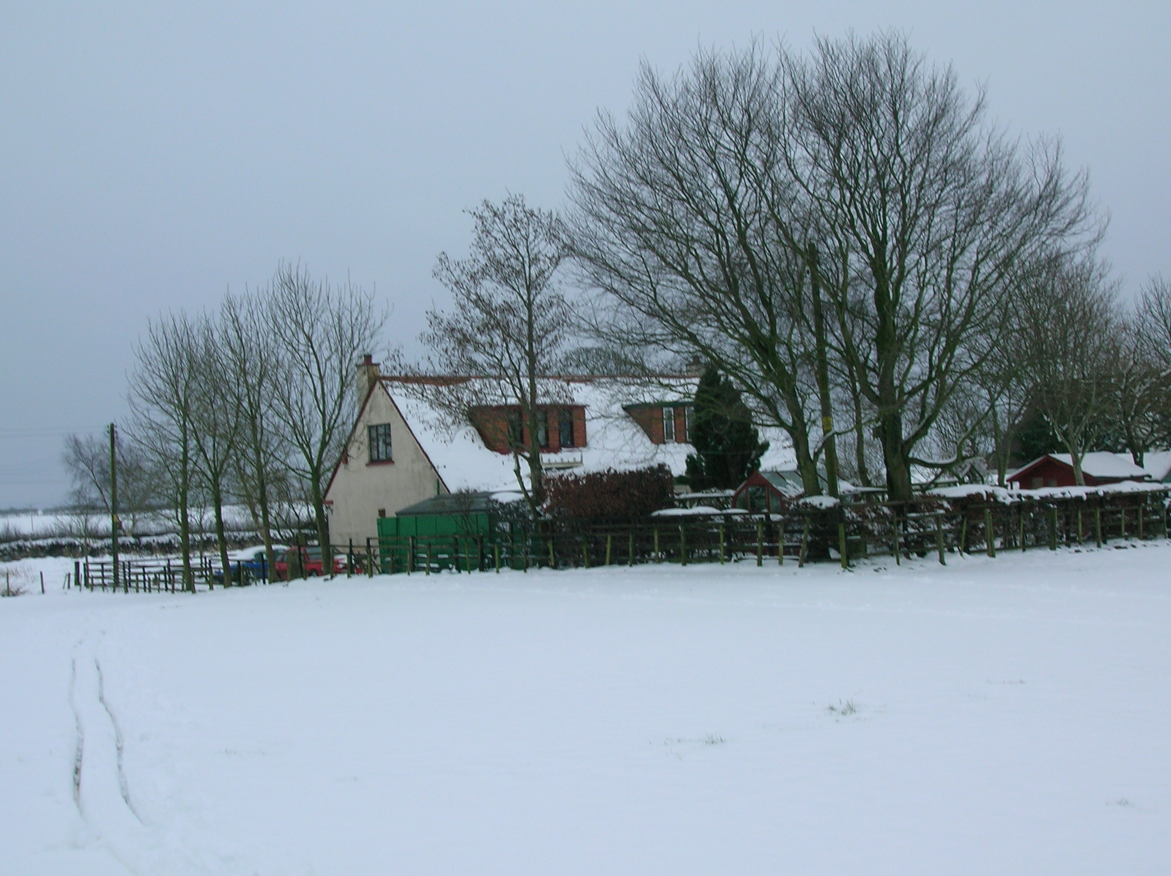 Chapeltoun Terrace in the snow looking towards East Lambroughton Farm. North Ayrshire. 2006.